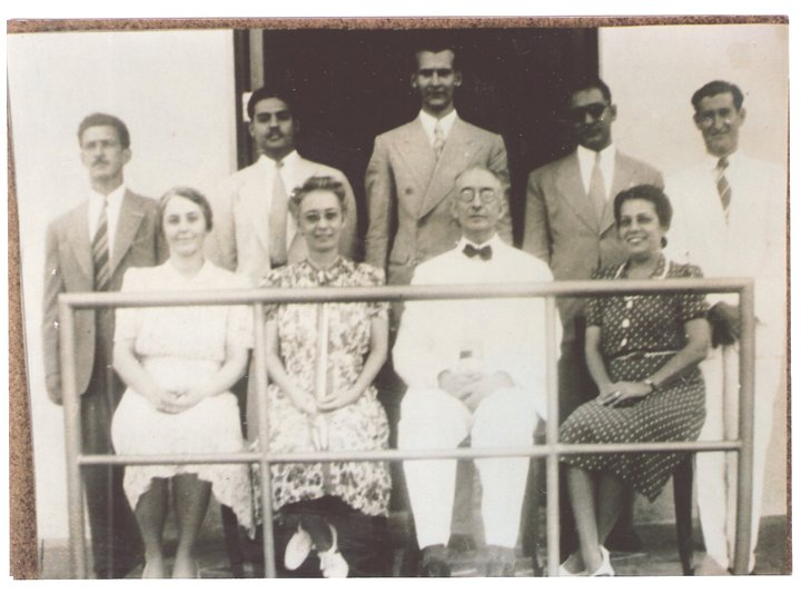 Candler College Faculty. Havana, Cuba